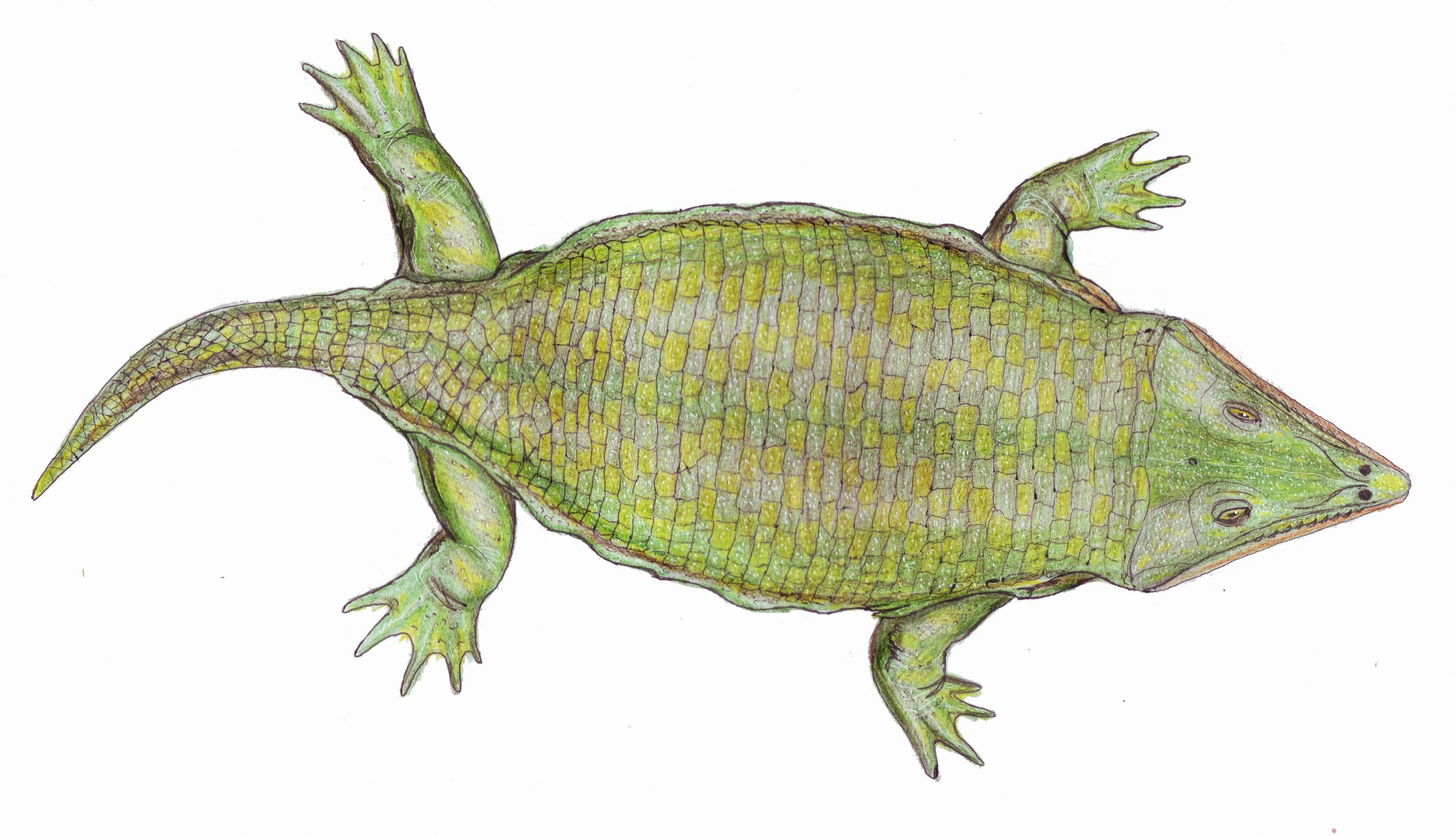 Laidleria gracilis - unusual armored temnospondyl from Early Triassic of South Africa